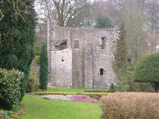 Gidleigh Castle is in the small village of Gidleigh on the edge of Dartmoor some 3 km to the north-west of the town of Chagford, Devon (grid reference SX671884).